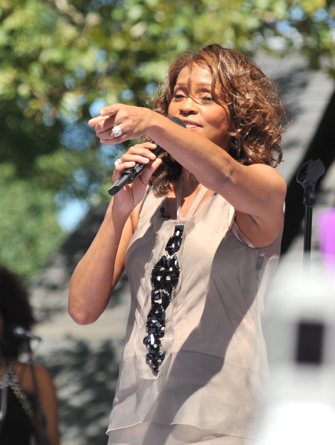 American singer Whitney Houston performing on Good Morning America (Central Park, New York City) on September 1, 2009.